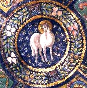 Lamb of God (mosaic in Basilica of San Vitale, Ravenna)